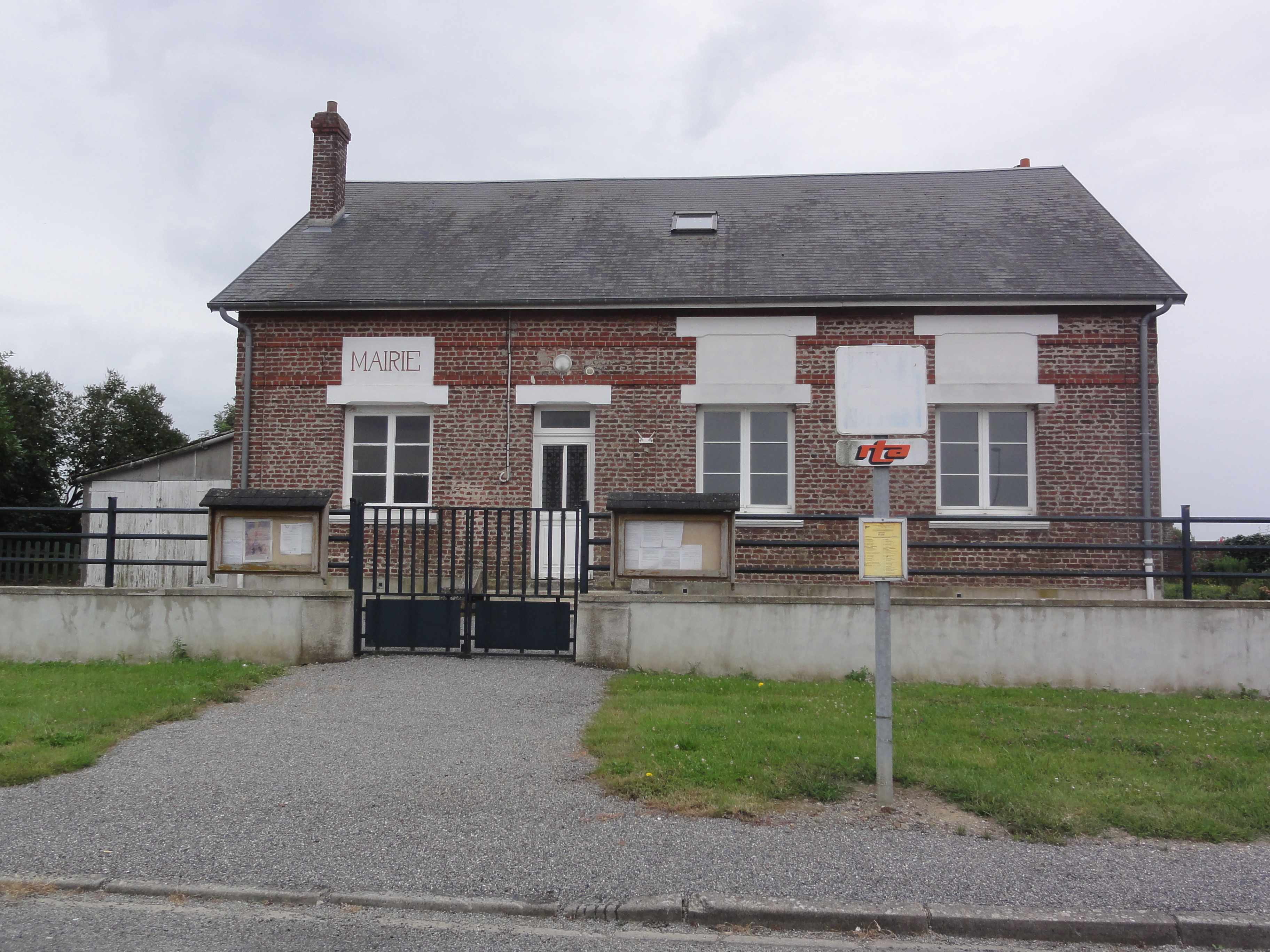 Cerizy (Aisne) mairie